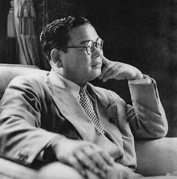 Kenji Fukunaga